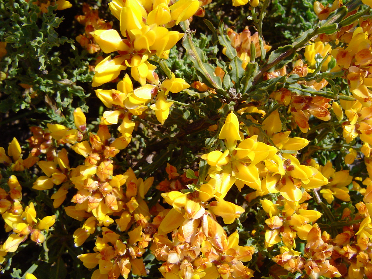 Genista tridentata, Ceuta (Spain)